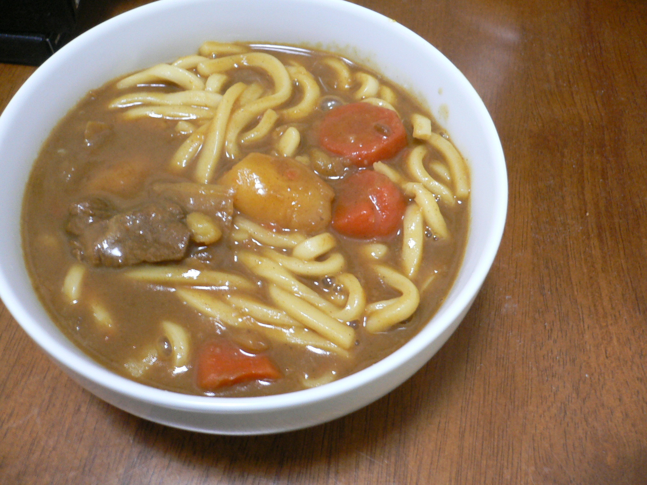 curry and japanese noodlecurry udon